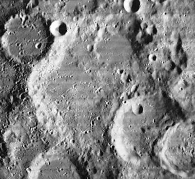 Orontius lunar crater - Lunar Orbiter - IV image LOIV 112 H2.